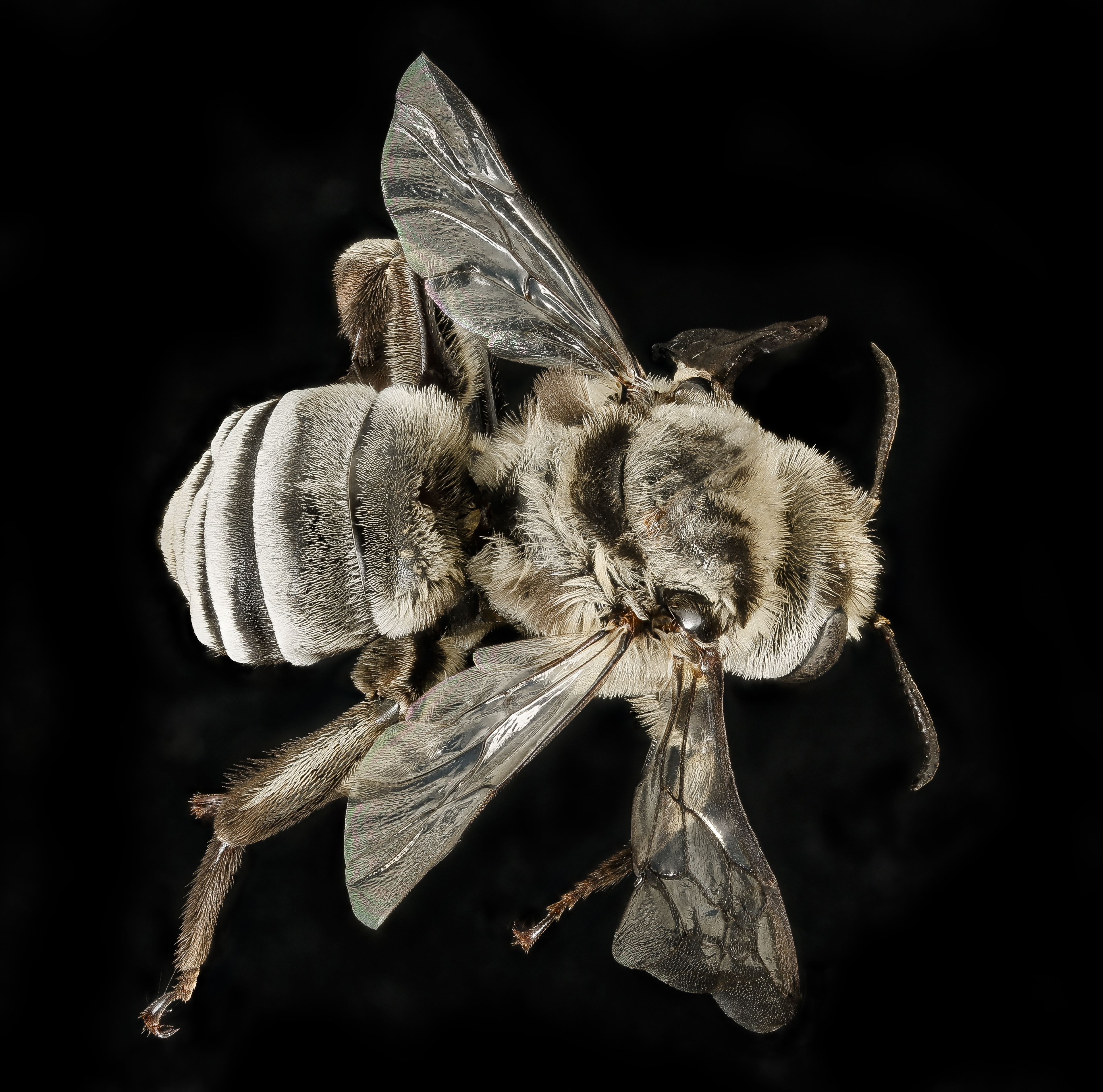 Melitoma taurea....a bindweed/morning glory specialist. This species seems to find the invasive non-native bindweeds perfectly acceptable and thus you can find it nesting right in the middle of cities as well in natural areas. Notable for the length of its tongue which, even when folded up extends to the abdomen. Makes sense given where it finds its pollen and nectar. Collected in Baltimore in the Armistead Gardens area. Ashleigh Jacobs took the photographs. 17:27, 1 April 2016 (UTC)17:27, 1 April 2016 (UTC) 0 17:27, 1 April 2016 (UTC)17:27, 1 April 2016 (UTC) All photographs are public domain, feel free to download and use as you wish. Photography Information: Canon Mark II 5D, Zerene Stacker, Stackshot Sled, 65mm Canon MP-E 1-5X macro lens, Twin Macro Flash in Styrofoam Cooler, F5.0, ISO 100, Shutter Speed 200 Beauty is truth, truth beauty - that is all Ye know on earth and all ye need to know " Ode on a Grecian Urn" John Keats Contact information: Sam Droege 301 497 5840